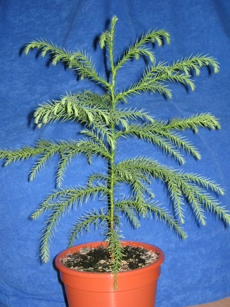 one year old Cryptomeria japonica. Ein Jahr alte Sicheltanne.